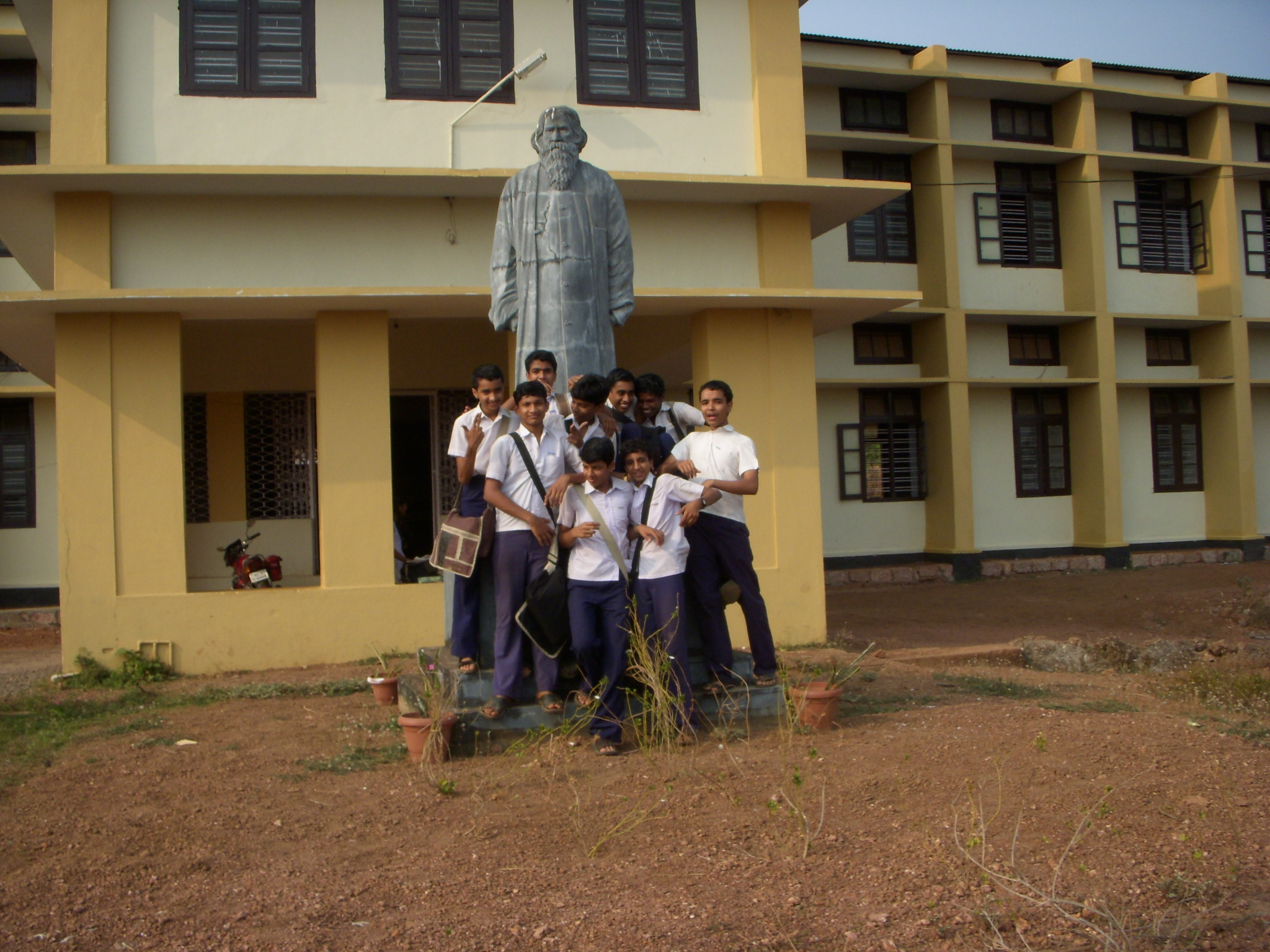 Students in official school uniform in front of the statue of Tagore at the entrance of the school.